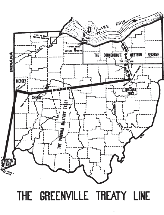 the line separating White and Indian lands determined at the Treaty of Greenville